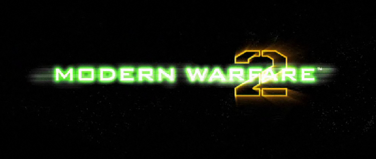 Logo from the game